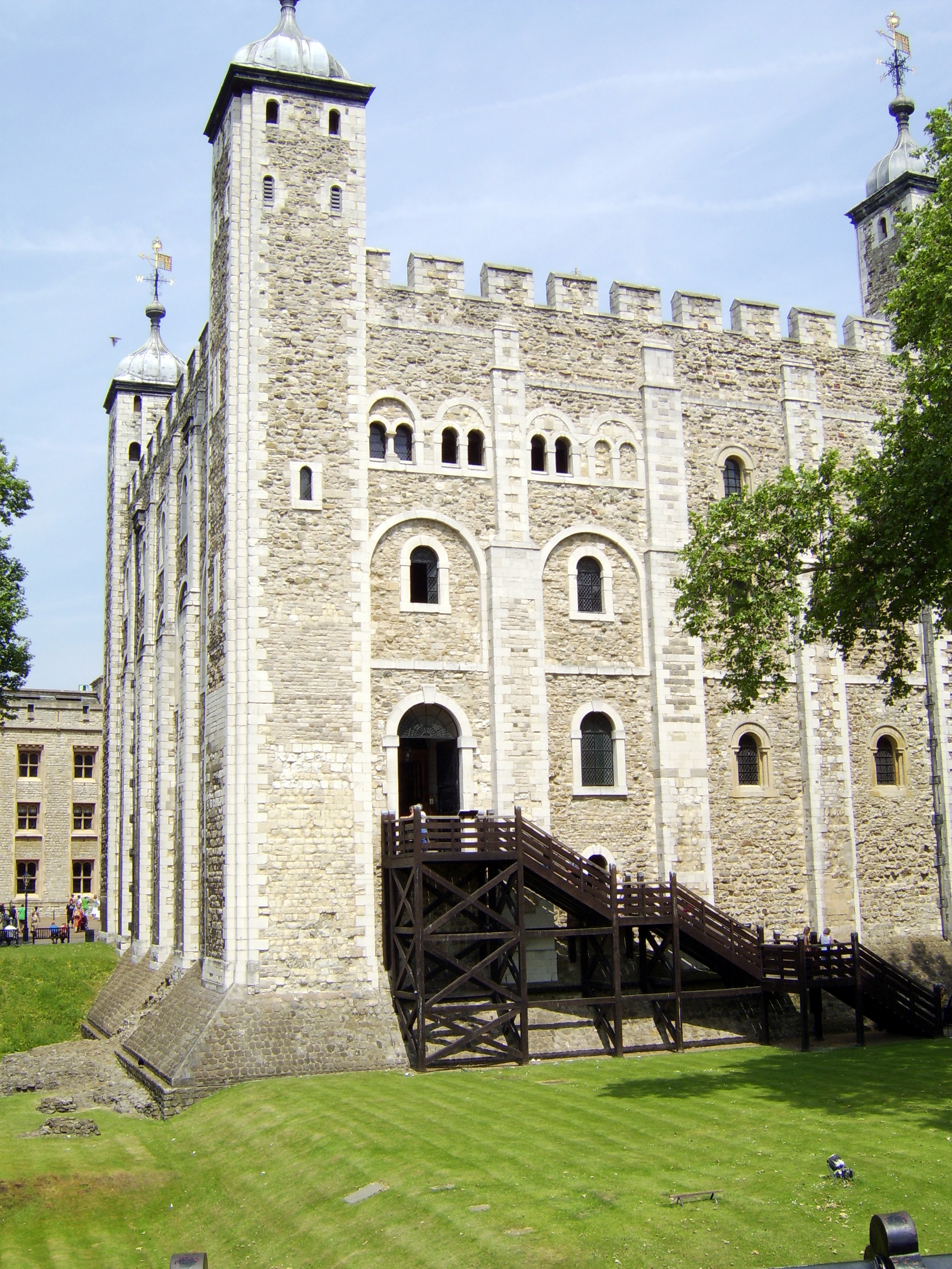 White Tower, Tower of London, England.